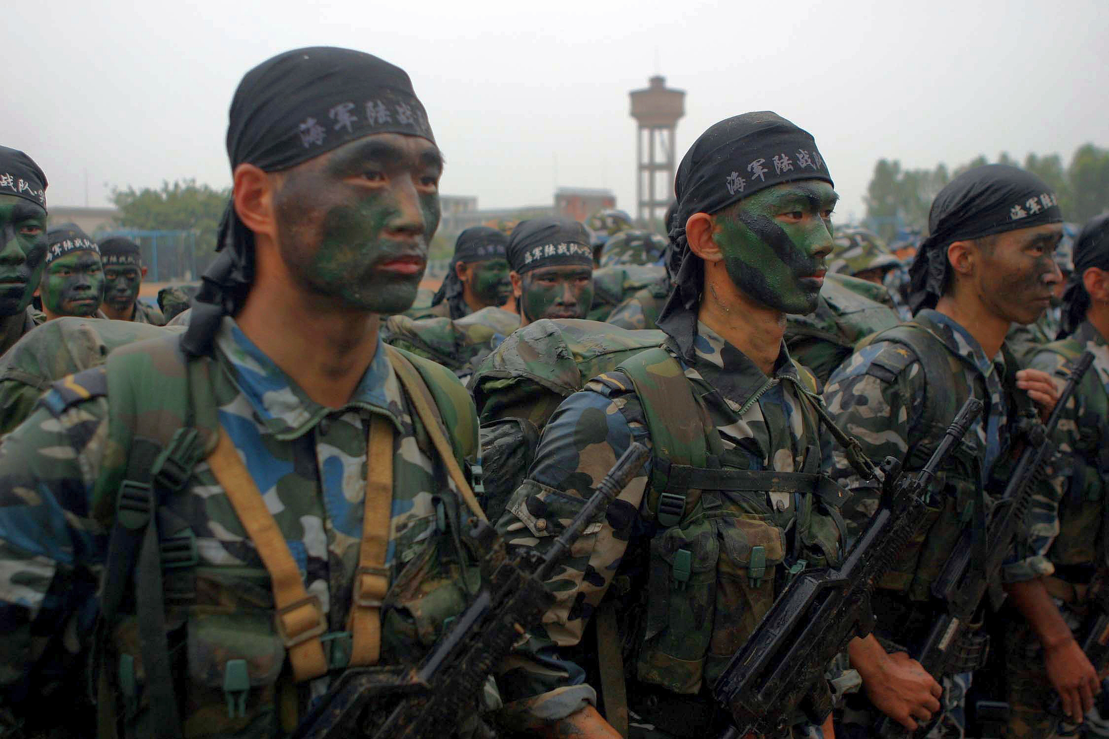 Marines of the People's Liberation Army (Navy) (PLA(N)) stand at attention as Commander, Pacific Fleet Rear Adm. Gary Roughead greets them following a demonstration of the brigade's capabilities. Roughead's visit to Zhanjiang coincides with the port visit of the amphibious transport docks ship USS Juneau (LPD 10), which will conduct a search-and-rescue exercise (SAREX) with PLA (N) assets after the visit. Roughead and Chinese leaders feel the visit and ensuing SAREX will promote mutual understanding, transparency and cooperation between both navies and nations.